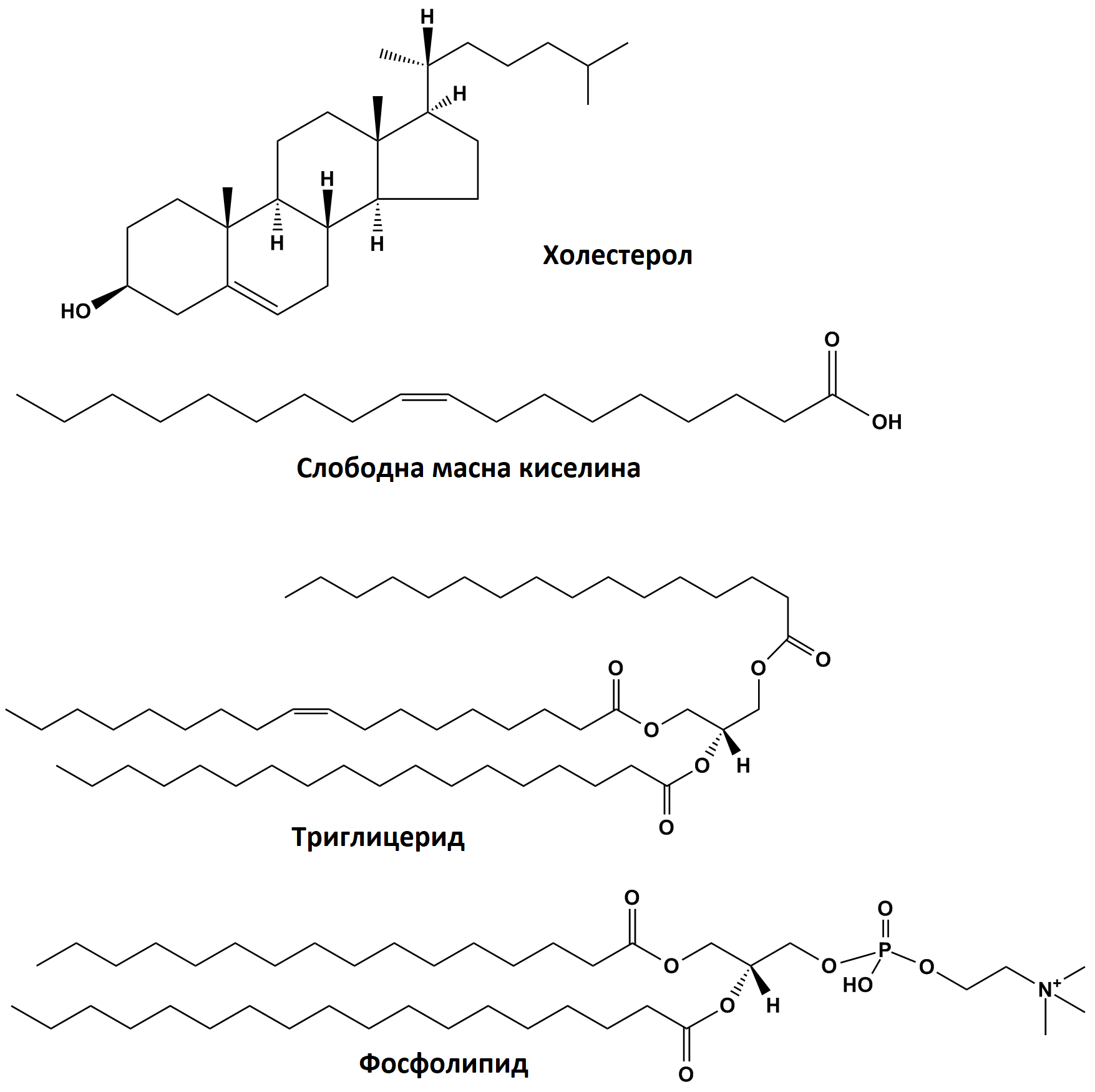 This is a version of File:Common lipids lmaps.png in which the names are translated into Serbian language.